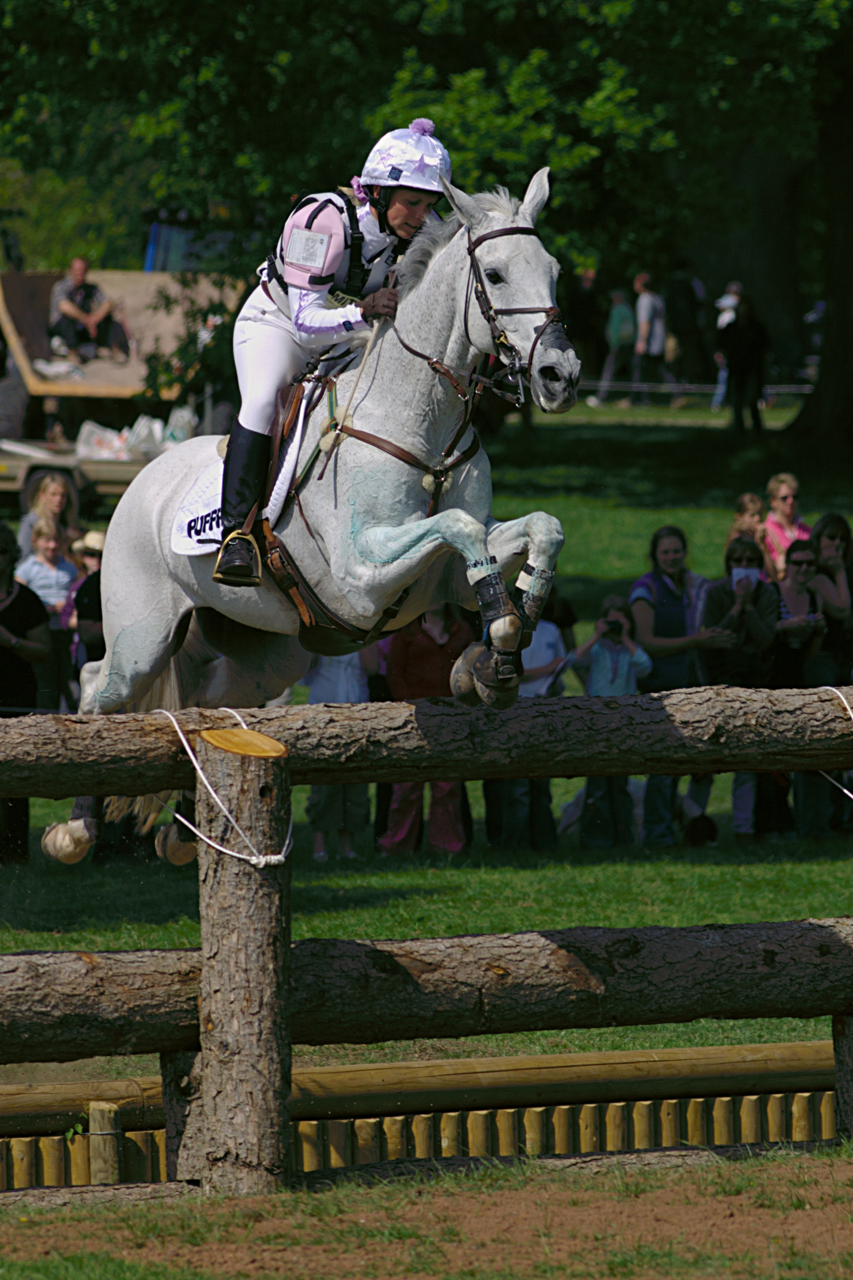 Gemma Tattersall and Jesters Quest jump the Open Ditch during the cross-country phase of Badminton Horse Trials 2007.